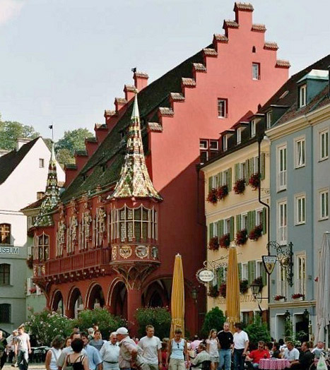 Muenster place with historical warehouse